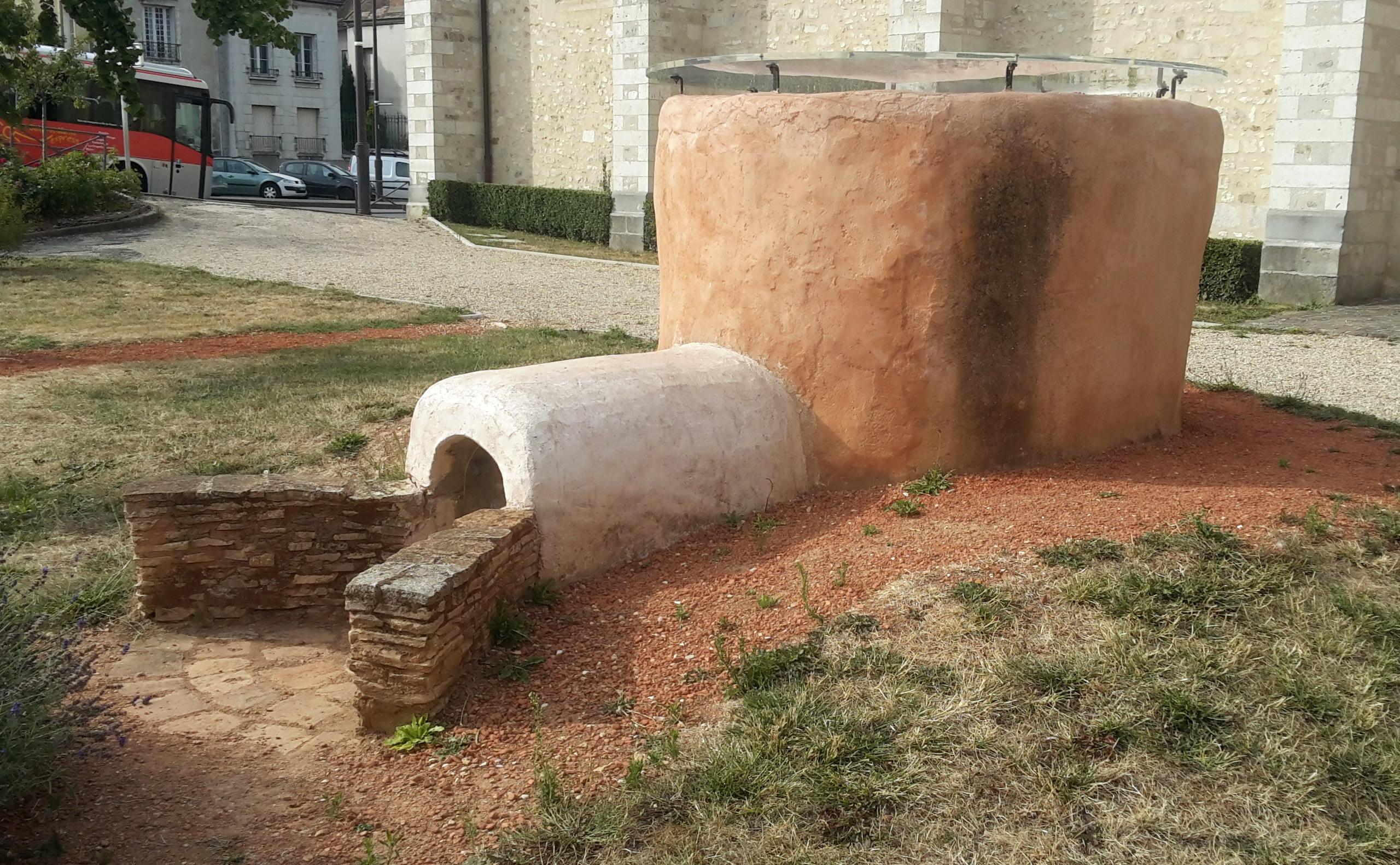 Gallo-roman oven for ceramics, 3th century.